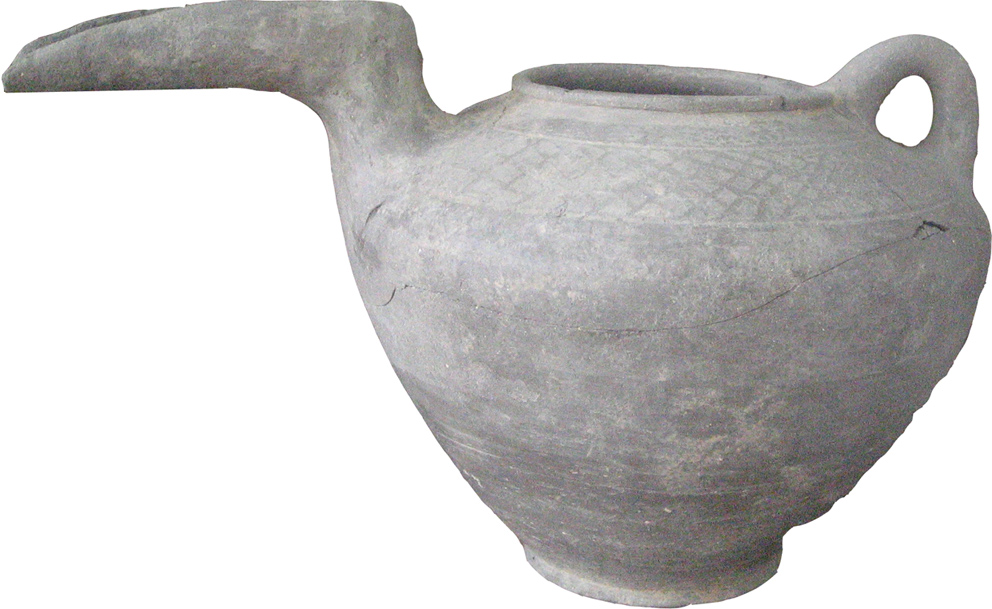 pottery spouted vessel - Jeiran tepe, Ozbaki, Nazar Abad, 2nd mil BC. National Museum of Iran.